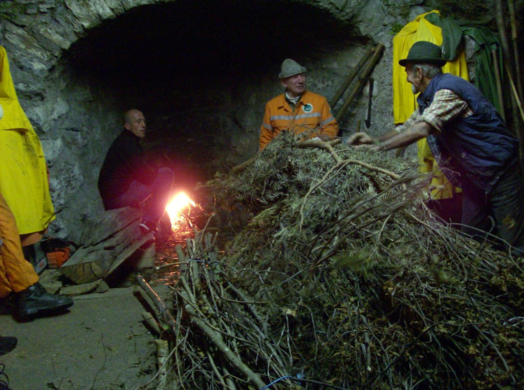 Calchera, Ono San Pietro